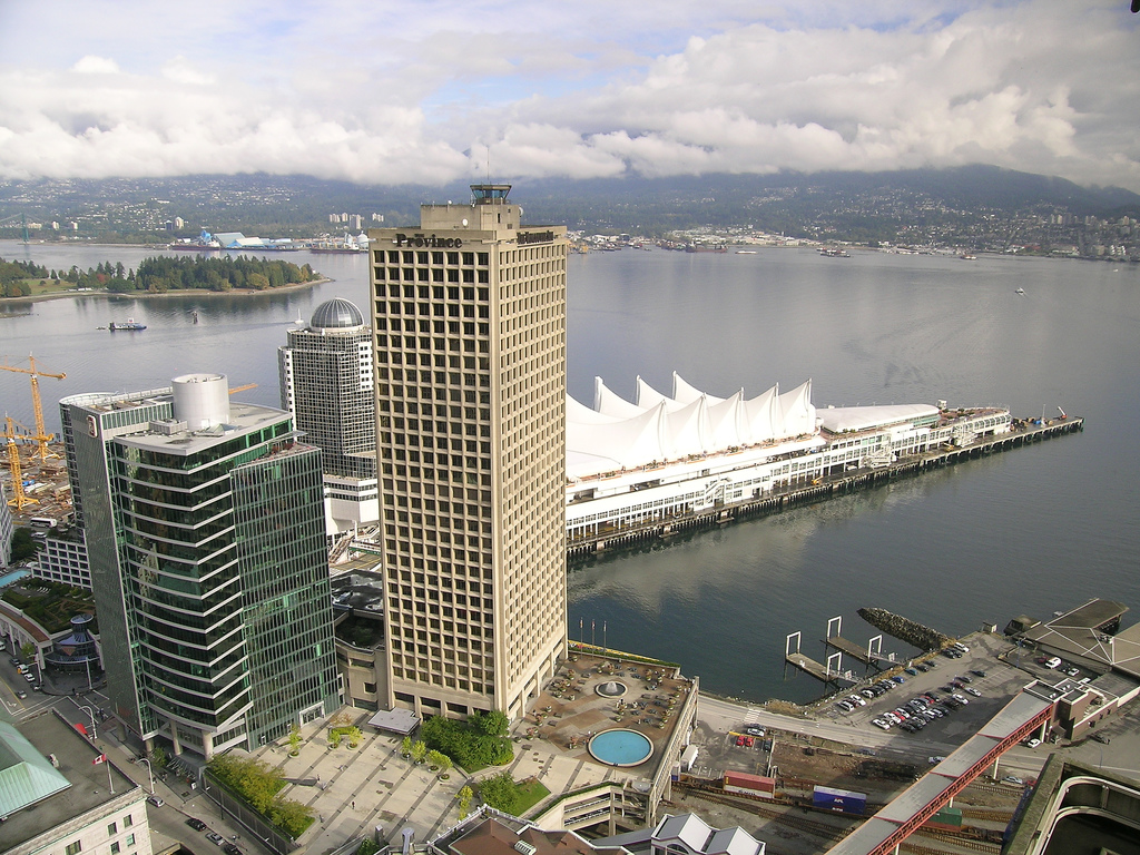 Canada Place with the world's tallest air traffic control tower. Taken from the Harbour lookout.